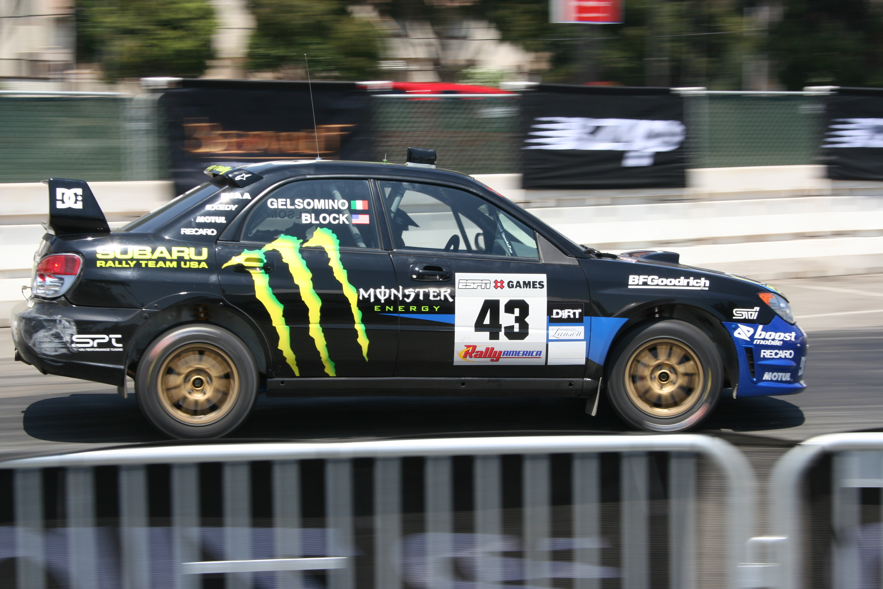 Ken Block and Alessandro Gelsomino tarmac practice for the rally event at X Games XIII. Home Depot Center Carson, California.